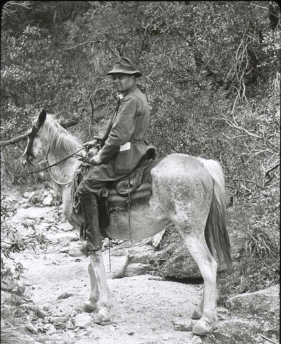 View of botanist Henry C. Cowles in the Santa Catalina Mountains in Arizona, 1913. Courtesy of the Peabody Museum of Natural History, Manuscripts & Archives, Yale University, New Haven, Connecticut. Retouched by MarmadukePercy.